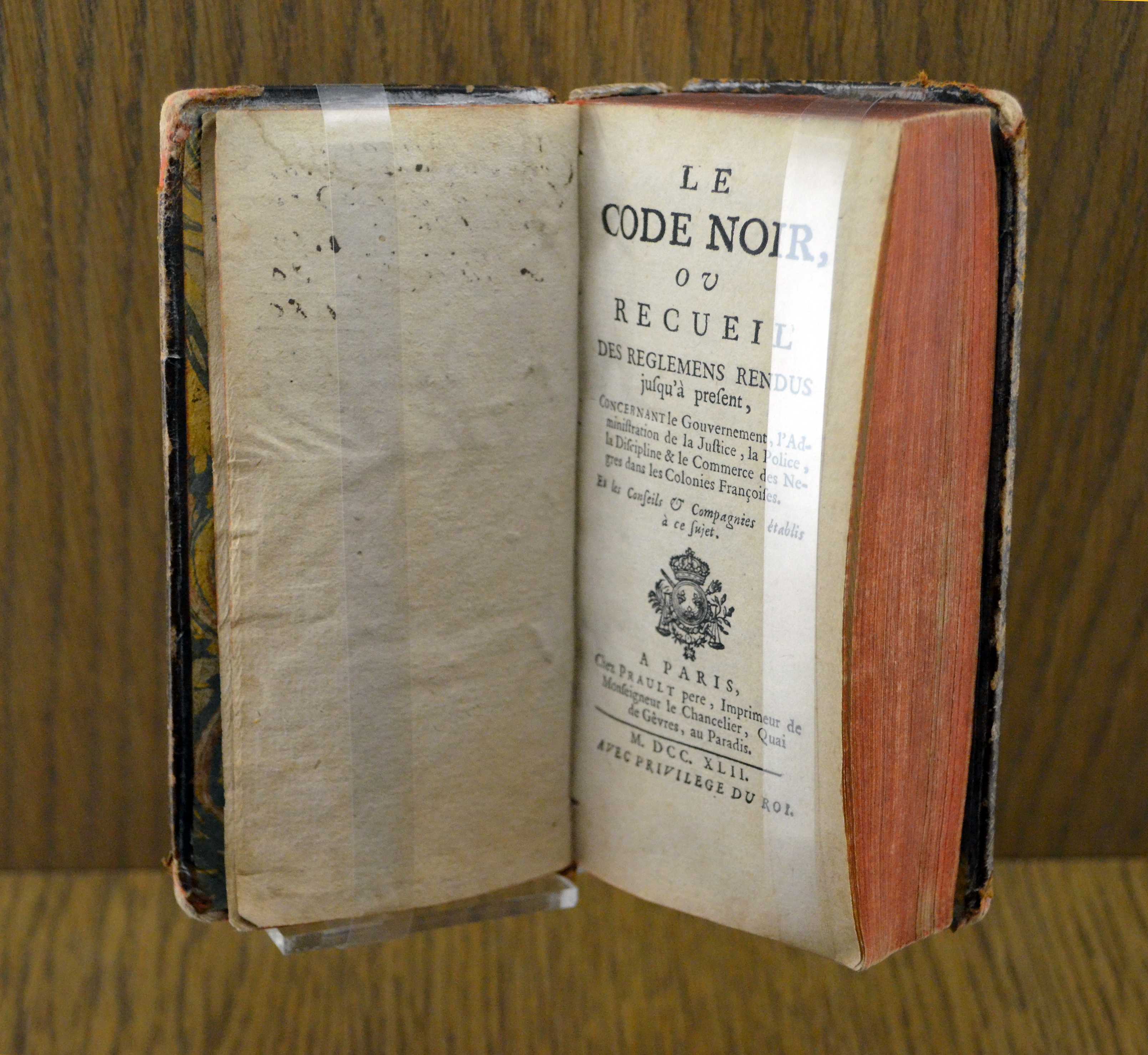 Code noir (1742 edition) exhibited at Nantes history museum